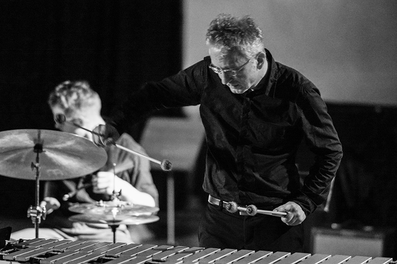 Christopher Dell at Copenhagen Jazz festival 2018. Performing with Søren Kjærgaard (p), Jonas Westergaard (b) and Christian Lillinger (d)